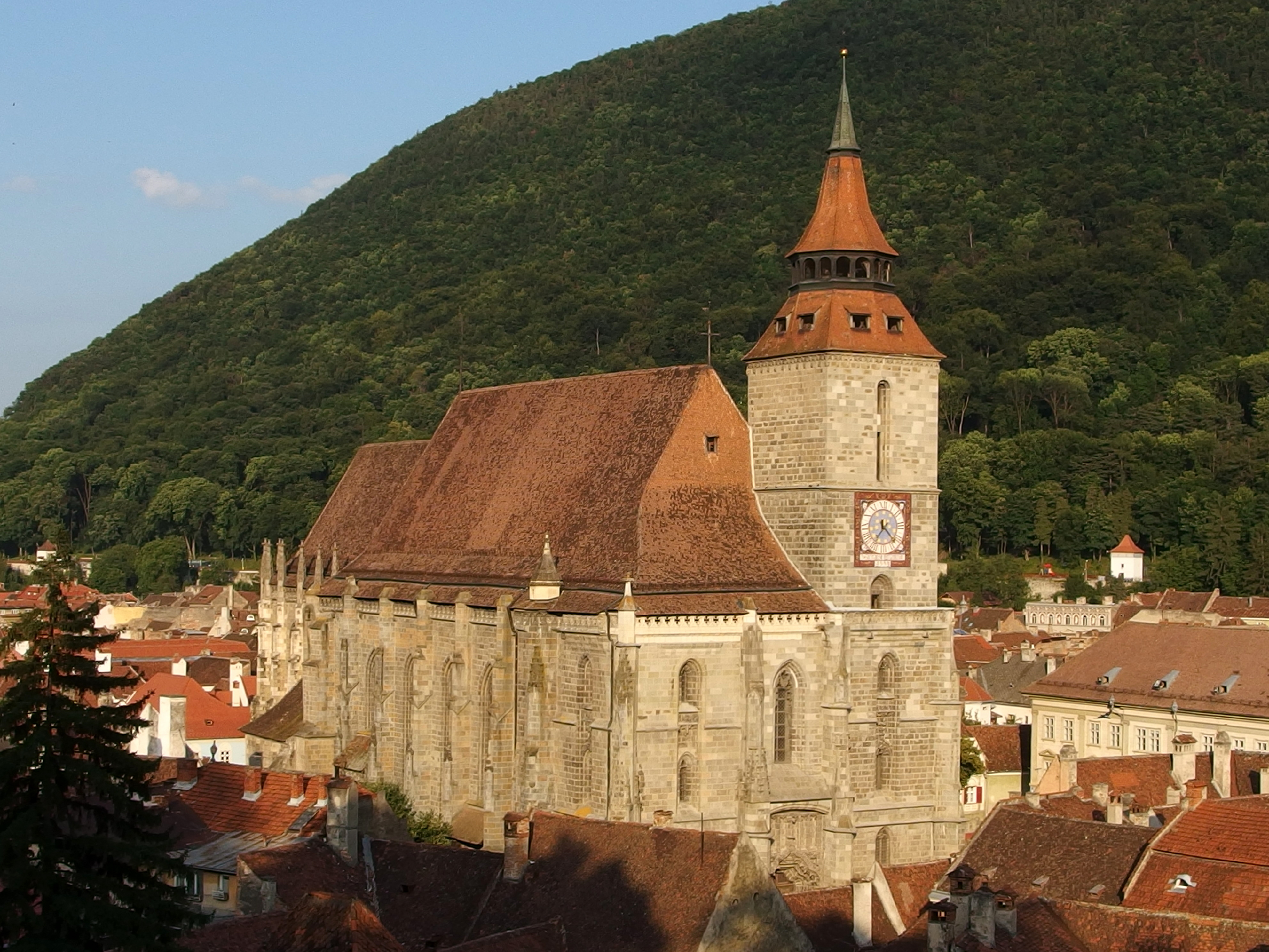 20140628 in Braşov.